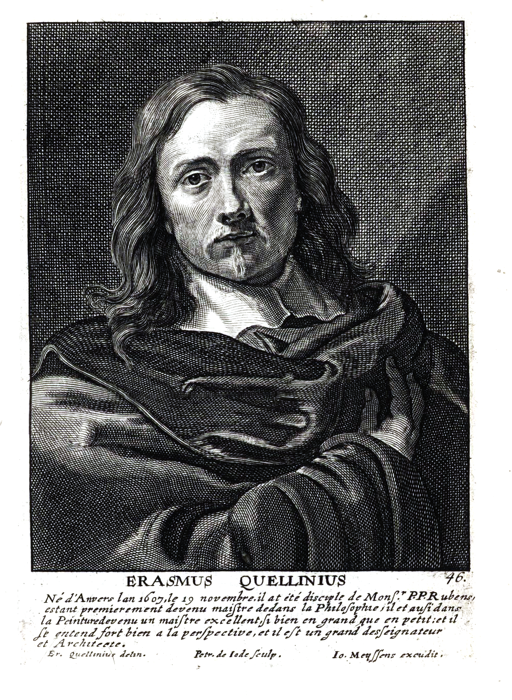 Portrait of Erasmus Quellinus in Cornelis de Bie's Gulden Cabinet.